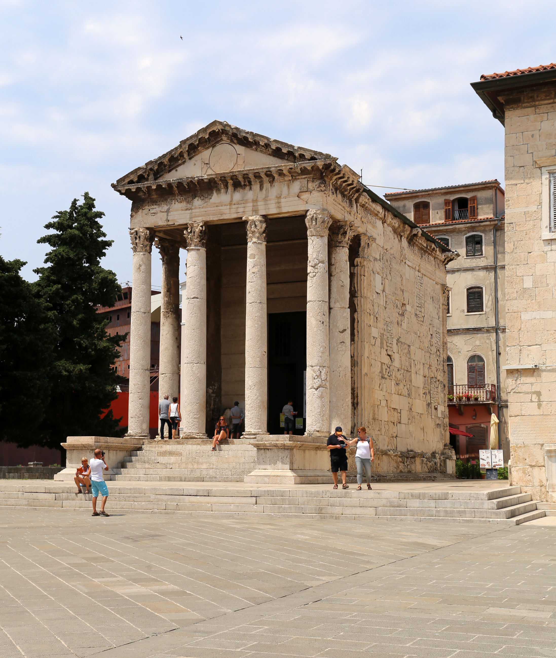 Buildings in Pula